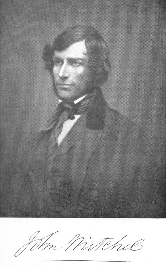 Image source John Mitchel's Jail Journel first published 1861